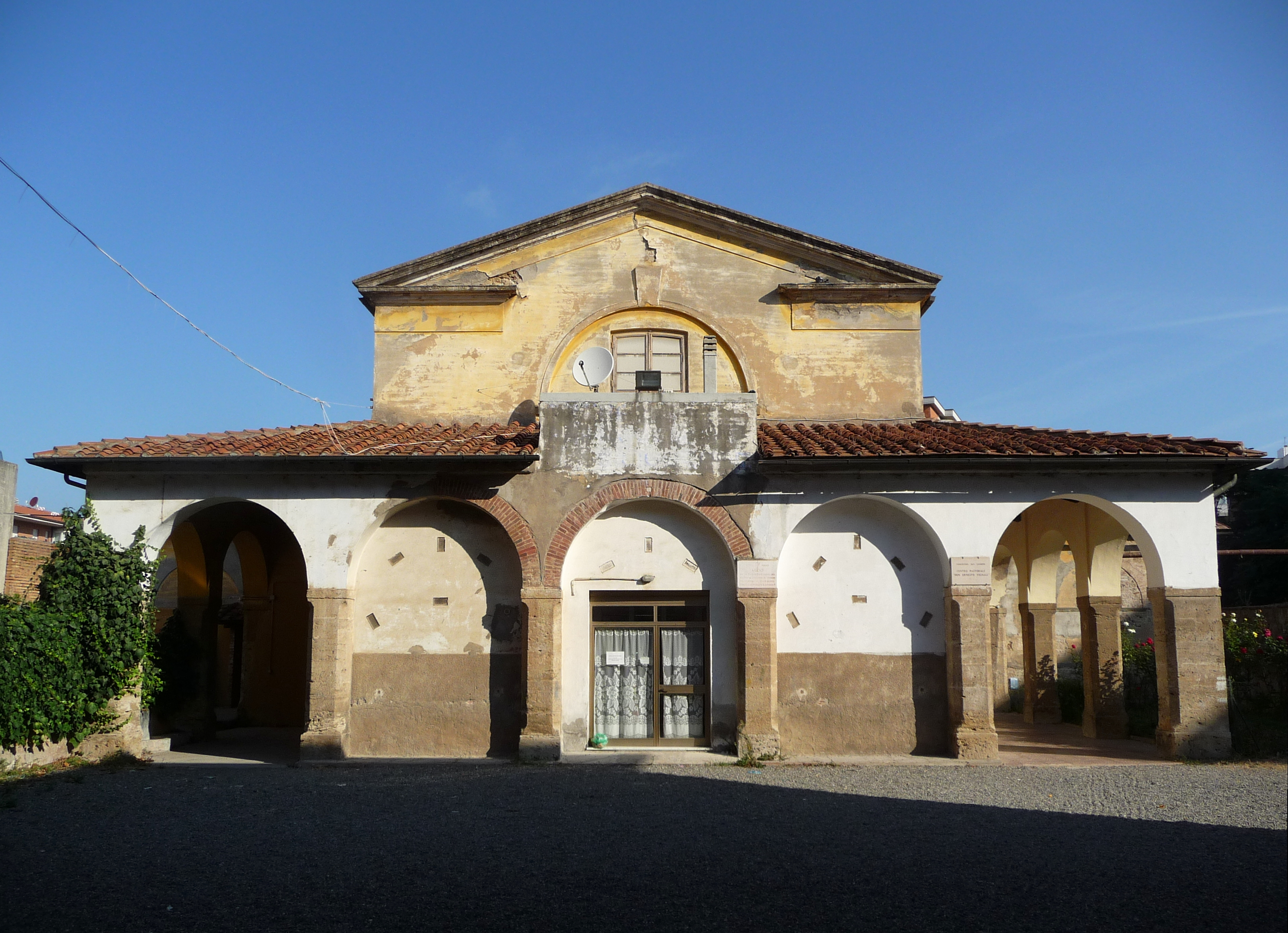 Centro Pastorale "Don Ernesto Vignali", Livorno, near the church San Giuseppe